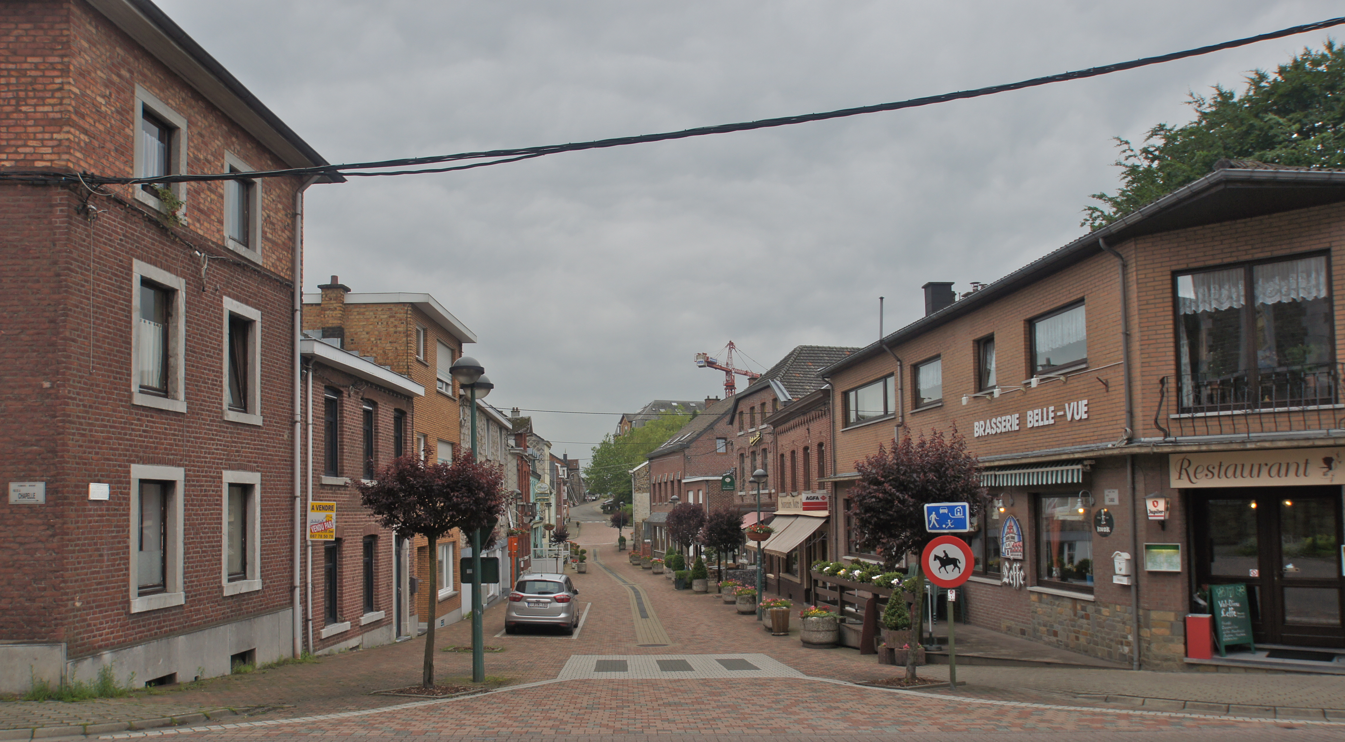 Moresnet (Moresnet-Chapelle), Belgium: Rue de la Clinique